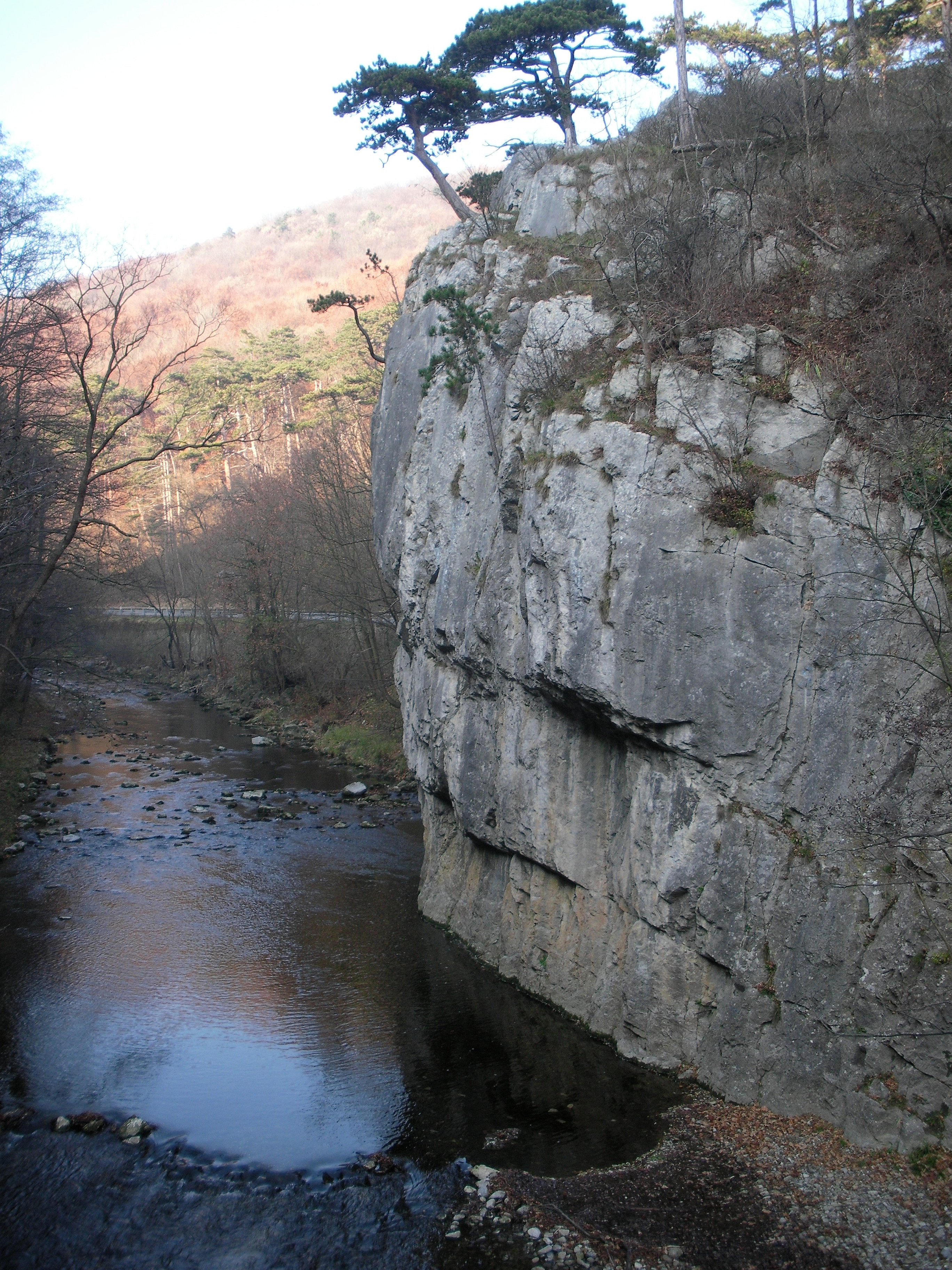 Ludwig van Beethoven - way Baden / Helenental, Urtelstein.